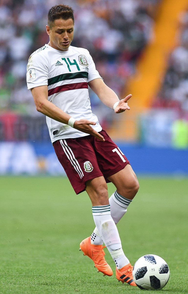 Javier Hernández Balcázar